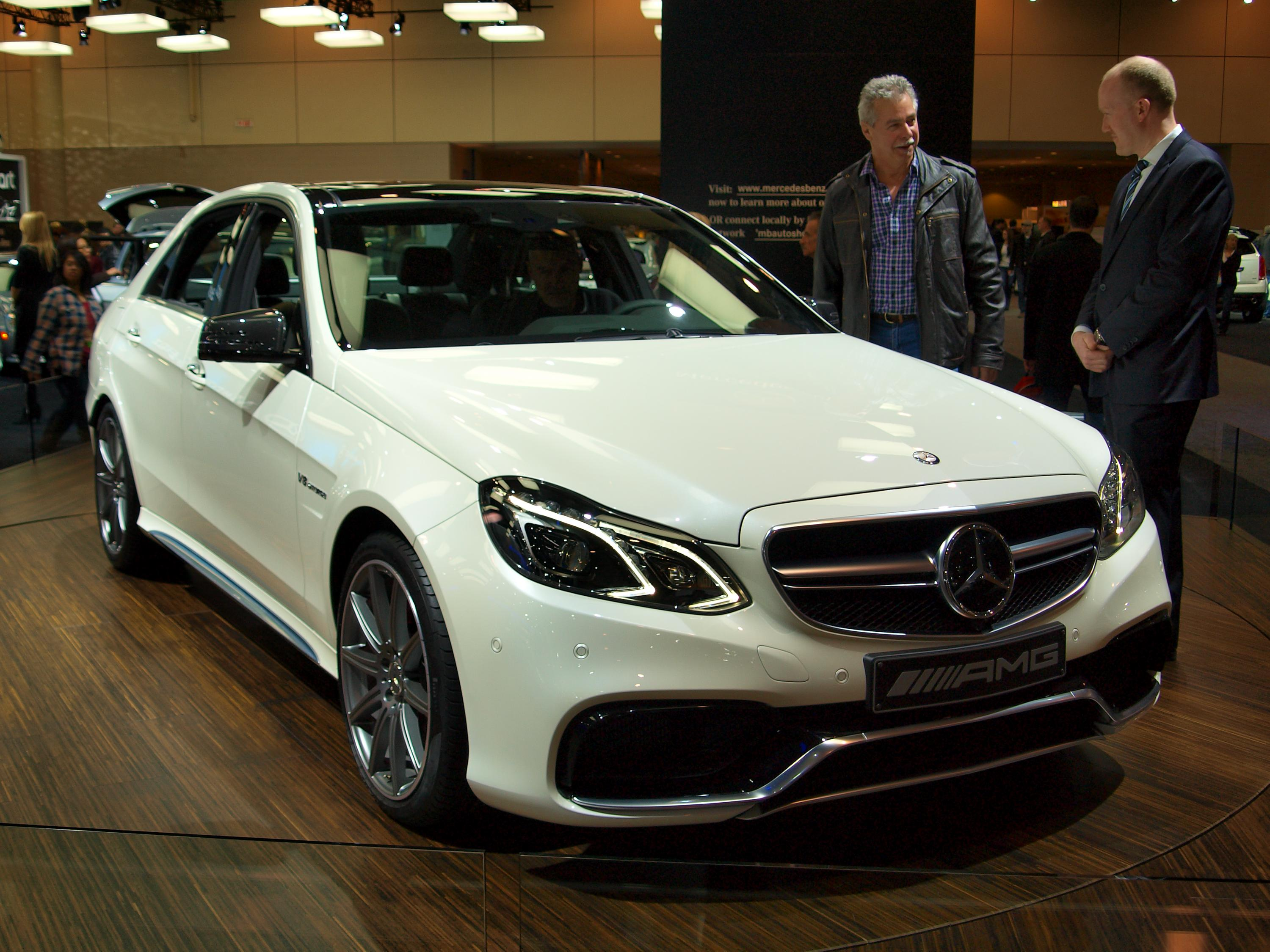 Anyone know what model this is?